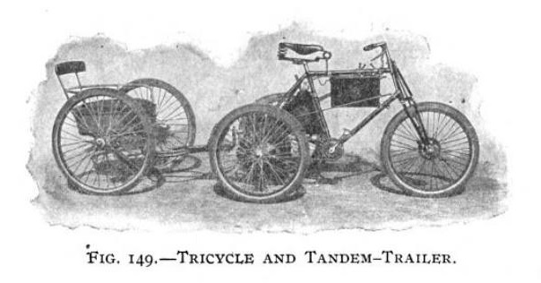 Black and white photograph or engraving of an Orient Autogo motorized tricycle with trailer for one passenger, manufactured by Waltham Manufacturing Company c. 1899-1900